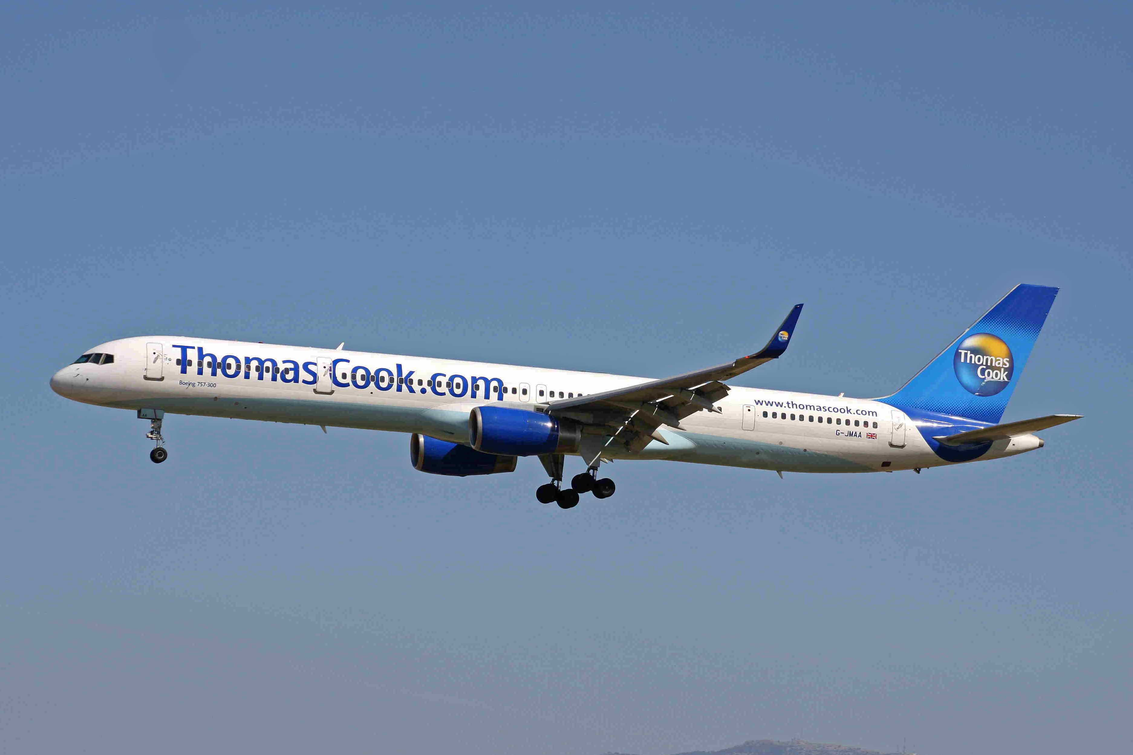 Originally, Thomas Cook aircraft just had 'Thomas Cook' titles, later '.com' was added to the titles on the left side. However there was no space for '.com' on the right side without moving the titles back.